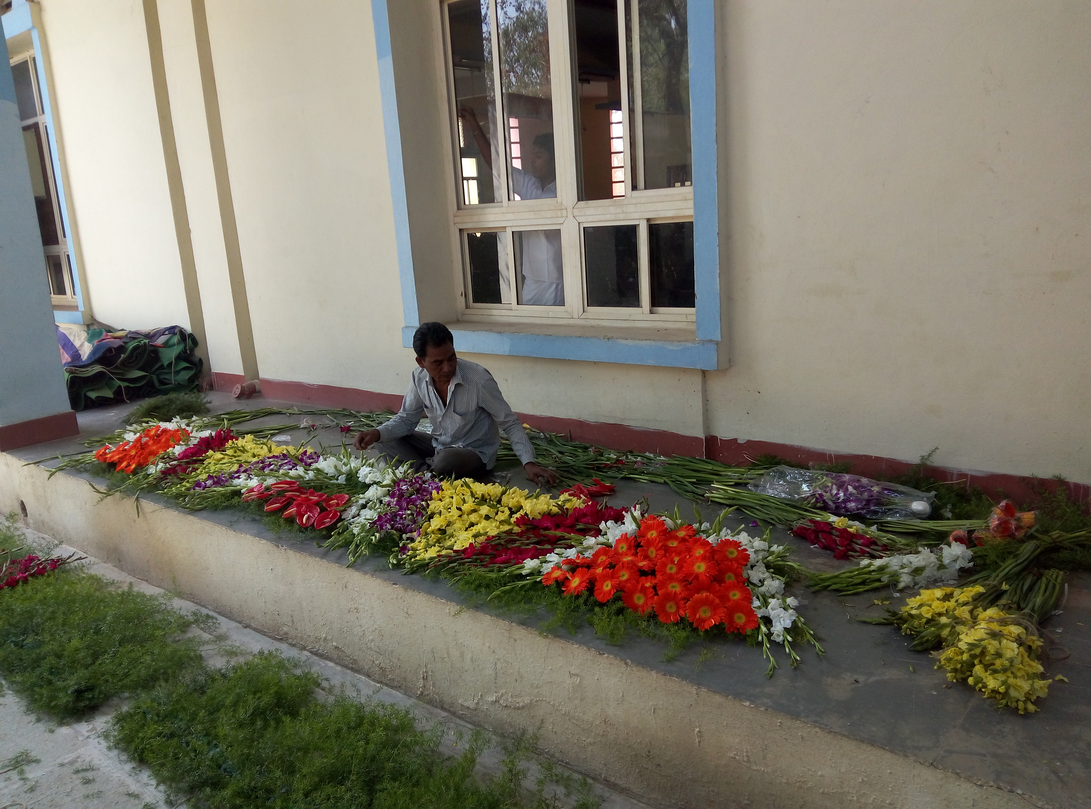 A man creating Flower decoration for Indian wedding